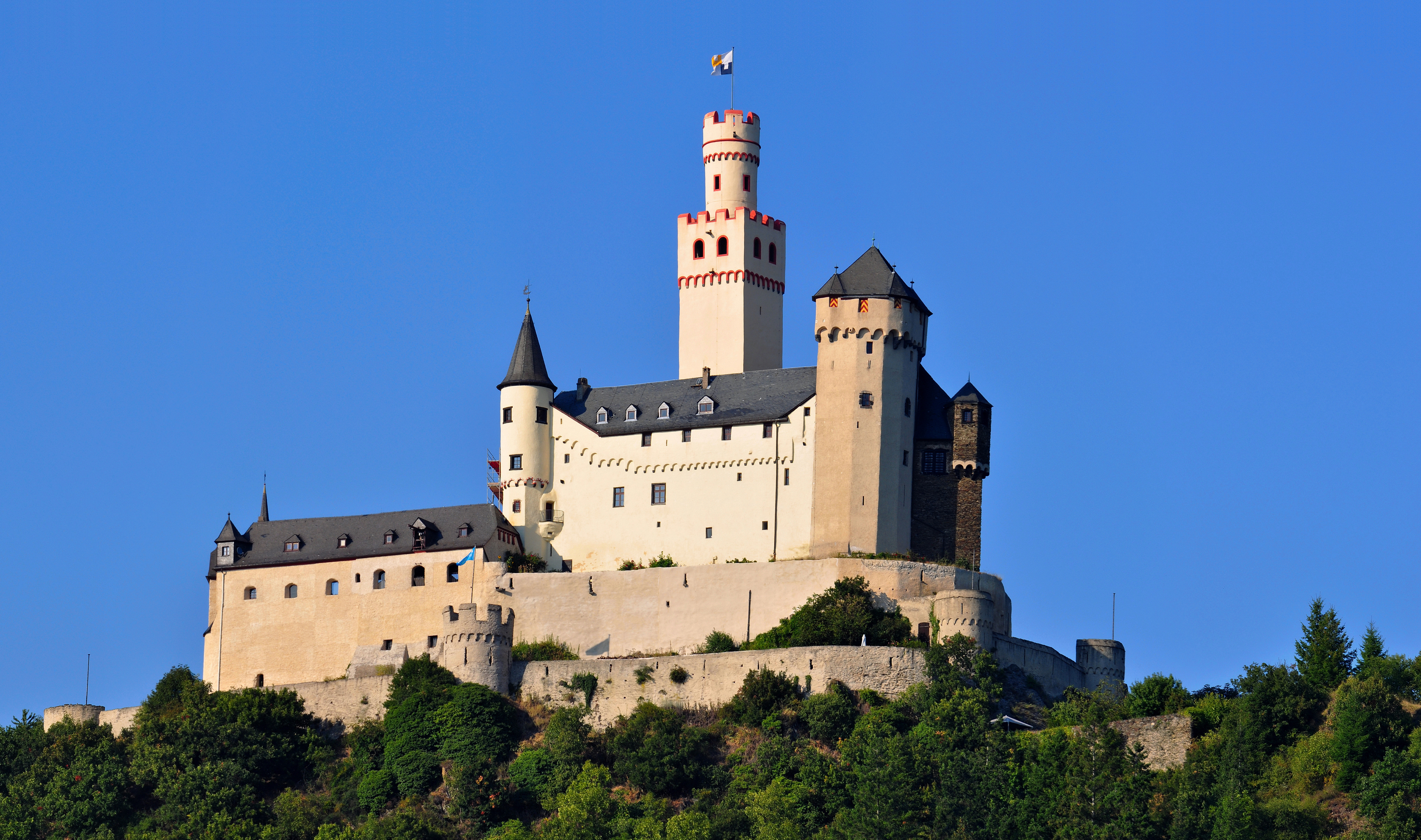 The Marksburg (seen from the western riverside of the Rhine) is a fortress above the town of Braubach in Rhineland-Palatinate, Germany. It is located on a schist rock in a heigth of 160 m. It is the only medieval castle of the Middle Rhine that has never been destroyed. Since 2002, the castle is one of the principal sites of the UNESCO World Heritage Rhine Gorge.